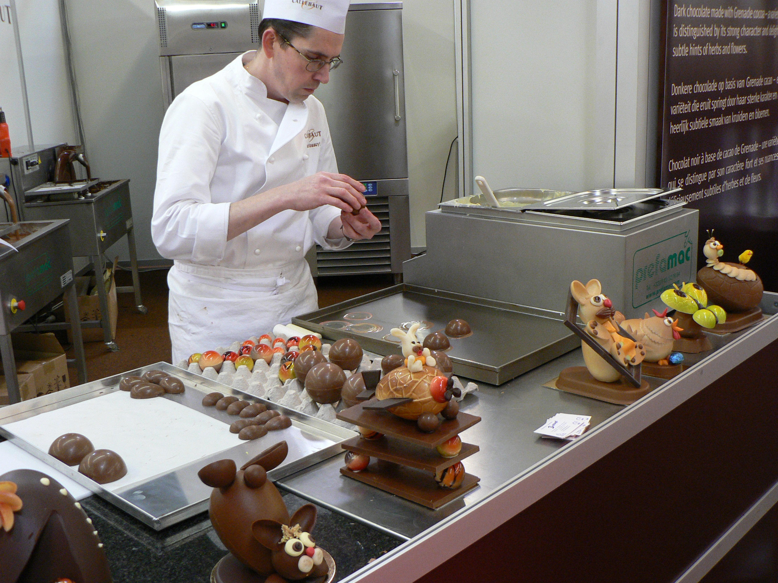 chocolatier assembling chocolate eggs, Choco-Laté fair, Brugge, Belgium